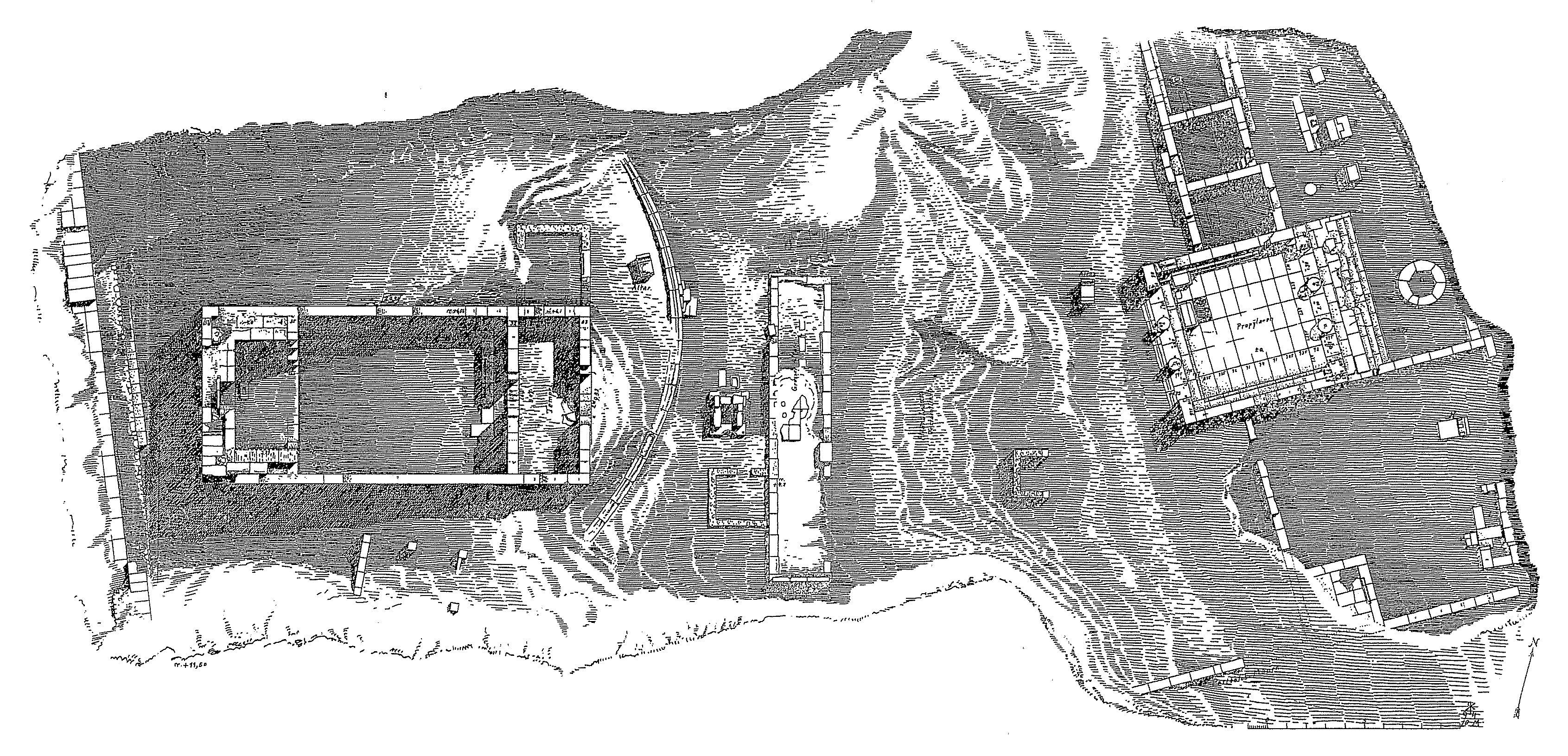 Megaron of Demeter near Selinunte.